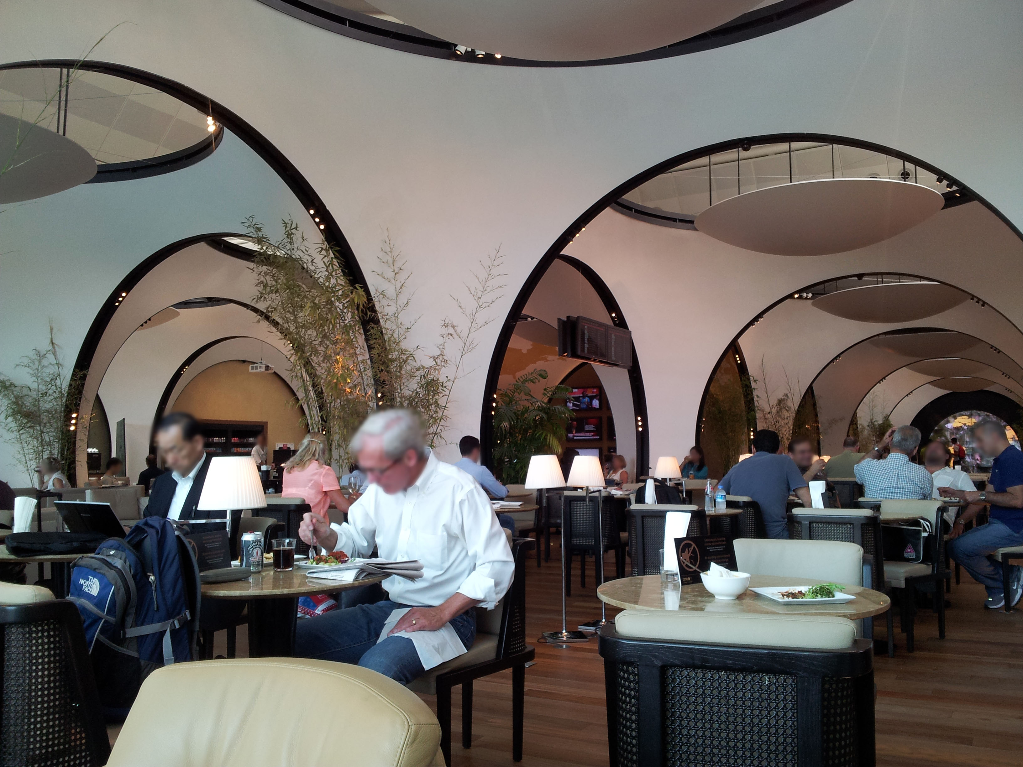 Turkish Airlines International CIP Lounge at Istanbul Atatürk Airport